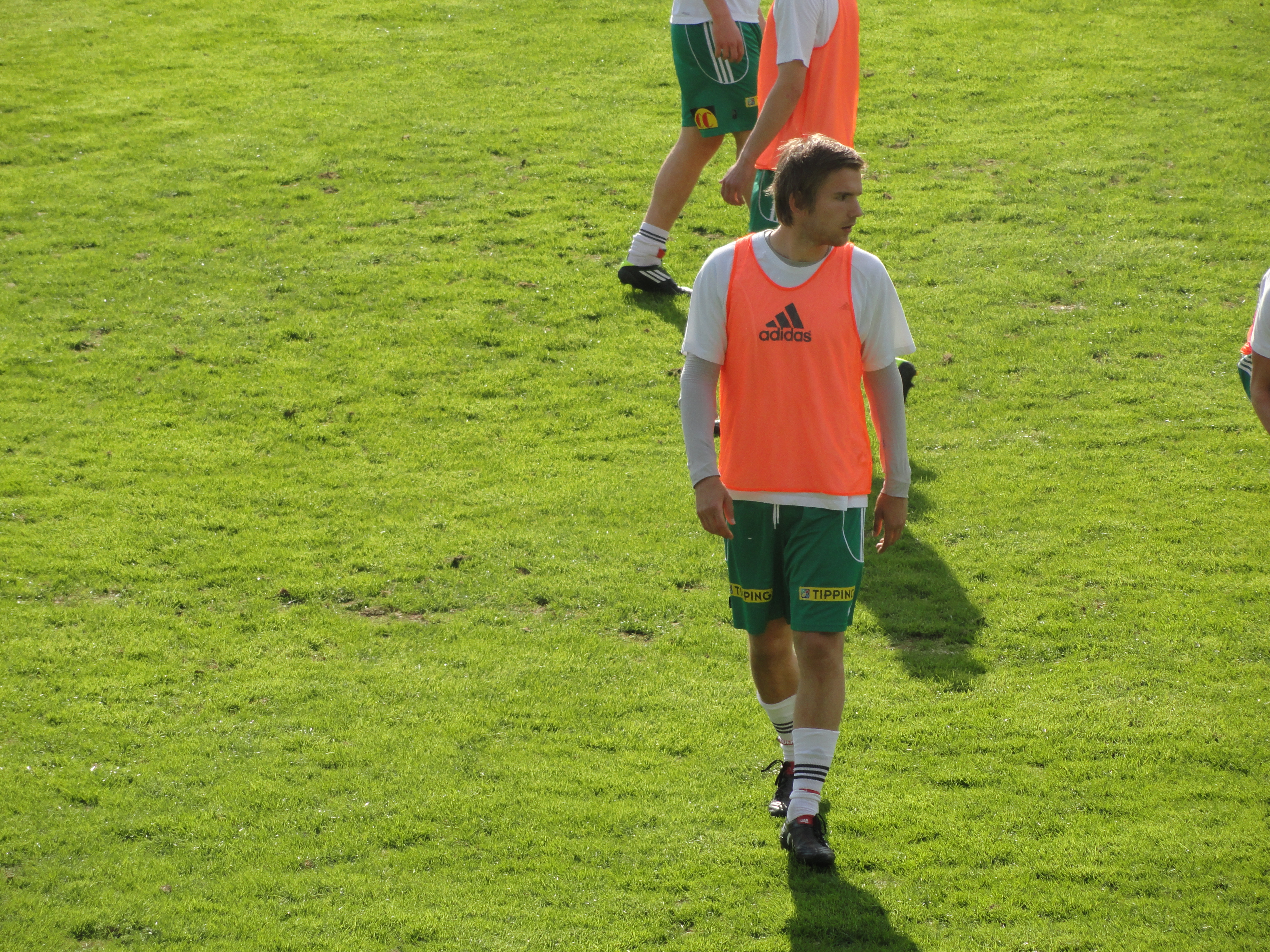 Picture of the Norwegian football player Oddbjørn Lie